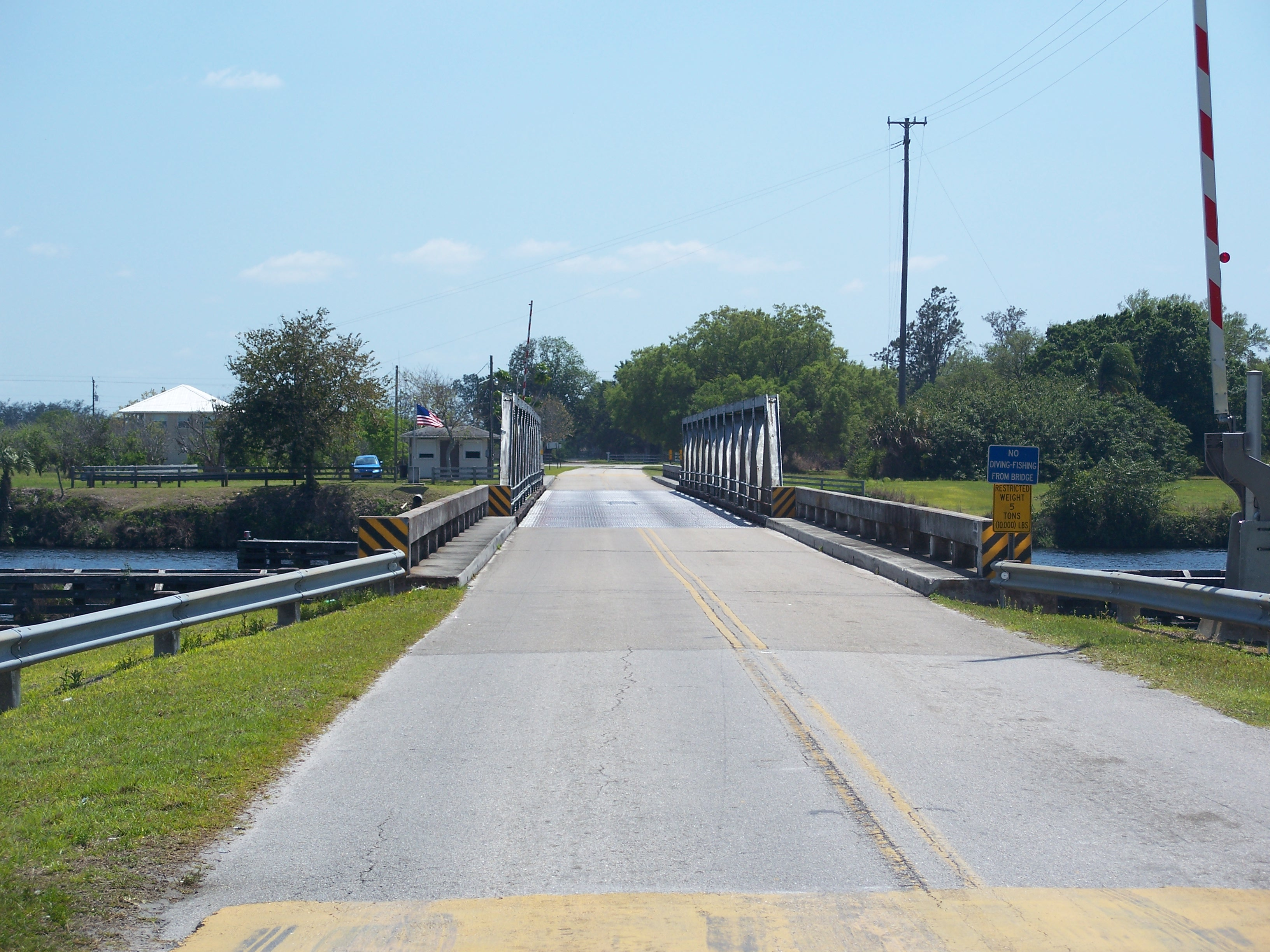 Hendry County, Florida: The Fort Denaud Swing Bridge over the Okeechobee Waterway. It was built in 1963.